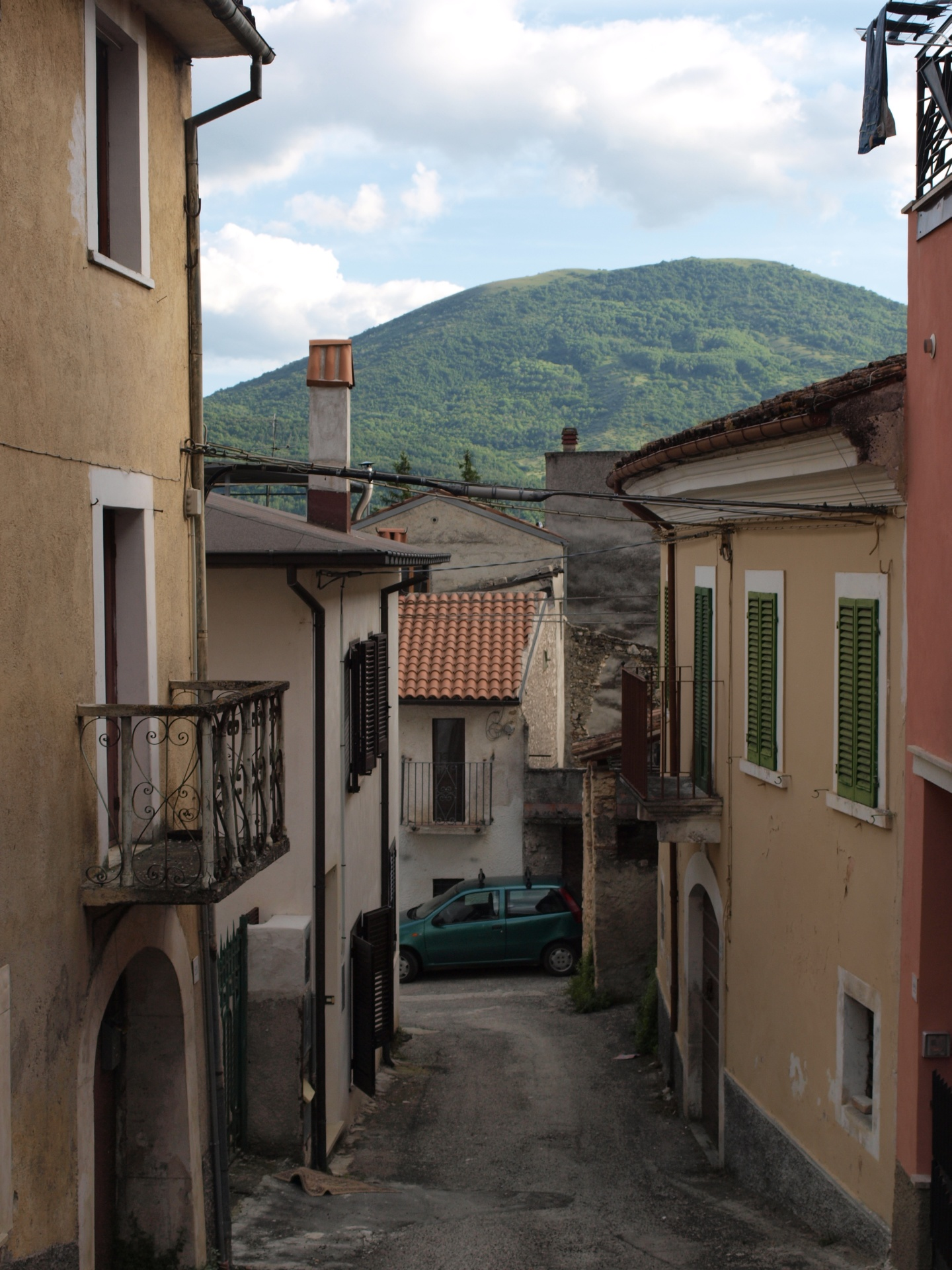 One of the streets in Pizzoli (province L'Aquila, Abruzzo region, Italy)